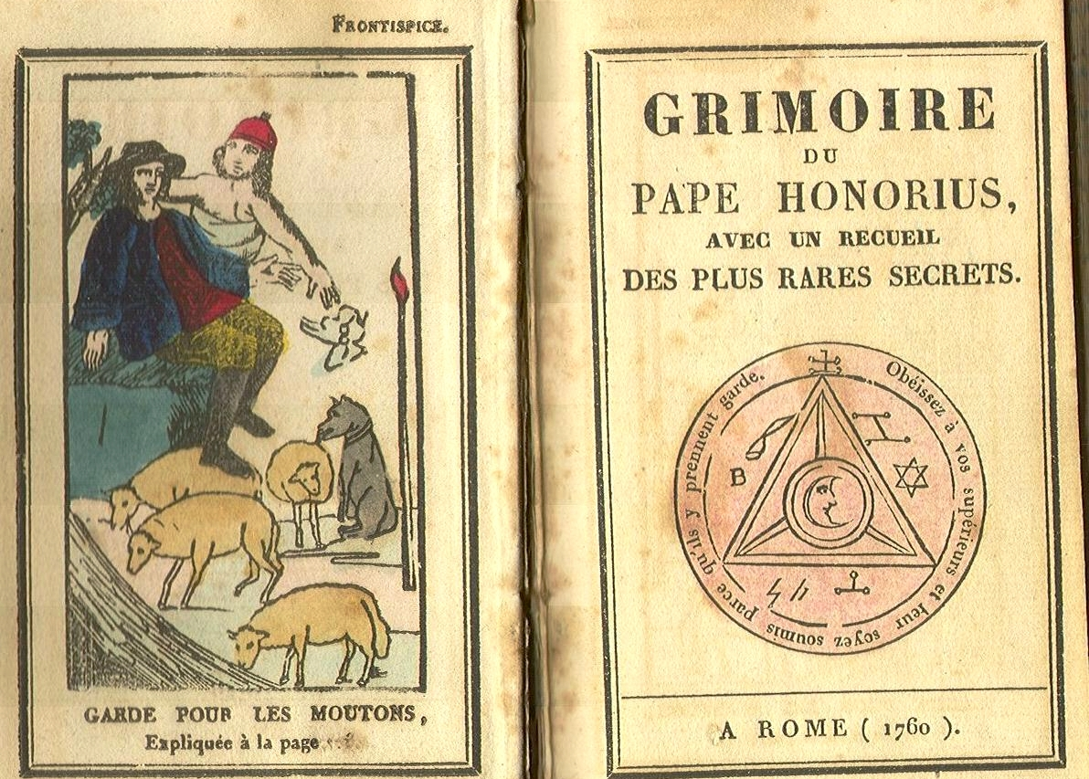 The frontispiece and title page of a French translation of a grimoire allegedly, but unlikely to have been, written by Pope Honorius III (1150 – 18 March 1227). The place and date of publication of the work may have been faked: see Pope Honorius III (allegedly) (1760 [actually 1810?]) Grimoire du Pape Honorius, avec un Recueil des Plus Rares Secrets [Grimoire of Pope Honorius, with a Collection of the Rarest Secrets], Rome [actually Paris?]: [s.n.], OCLC 559778262.